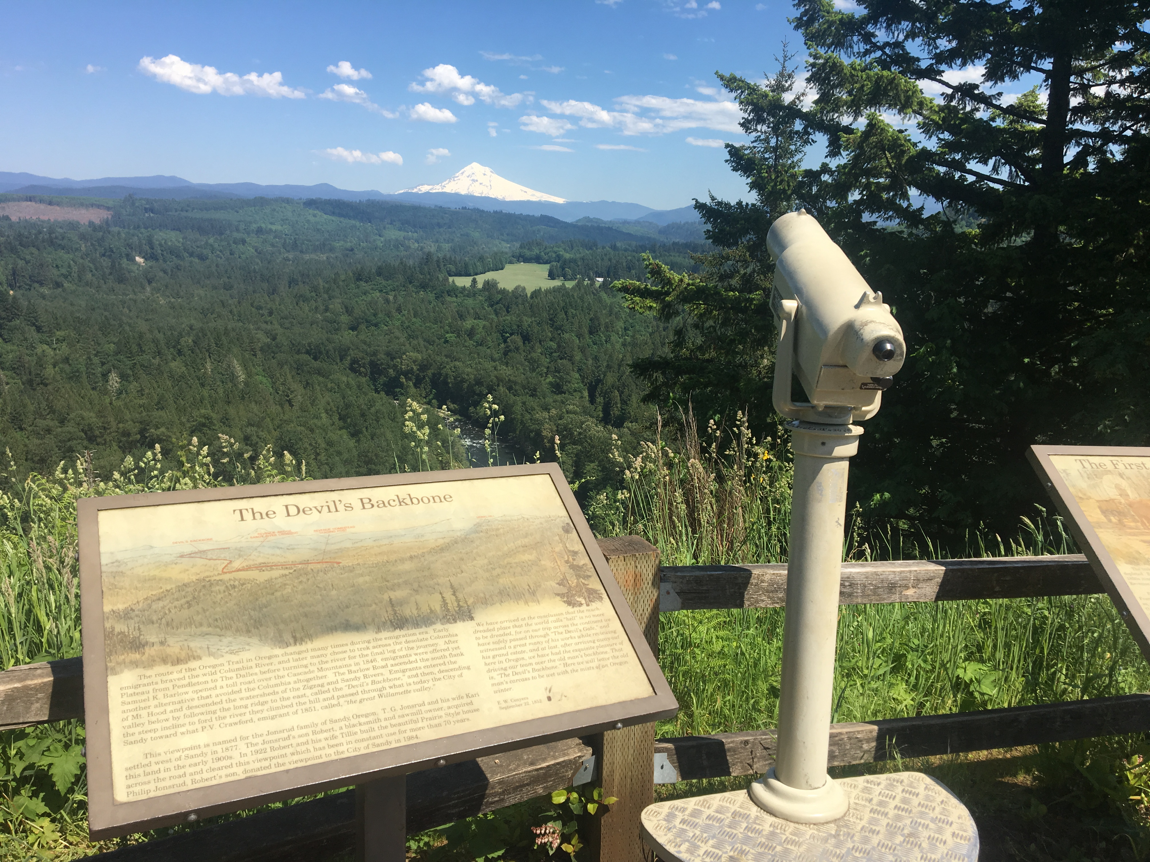 Jonsrud Viewpoint in Sandy Oregon, overlooking Mt Hood and the Bull Run watershed.